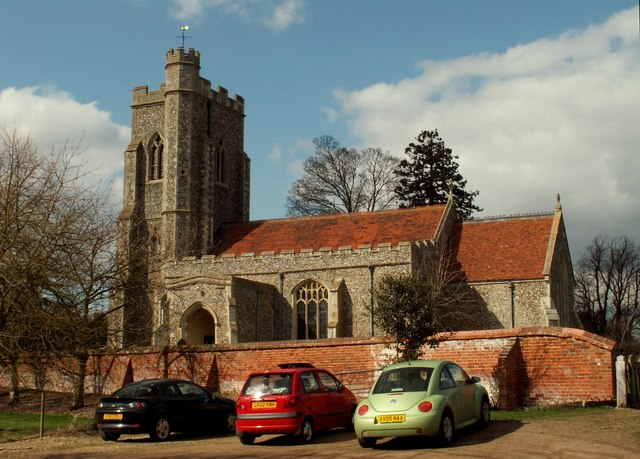 St. Edmund's church, Assington, Suffolk. This lovely church stands to the north of the village in a pleasant setting. It's mainly from the perpendicular period though the chancel was rebuilt in 1830 and tower in 1863.